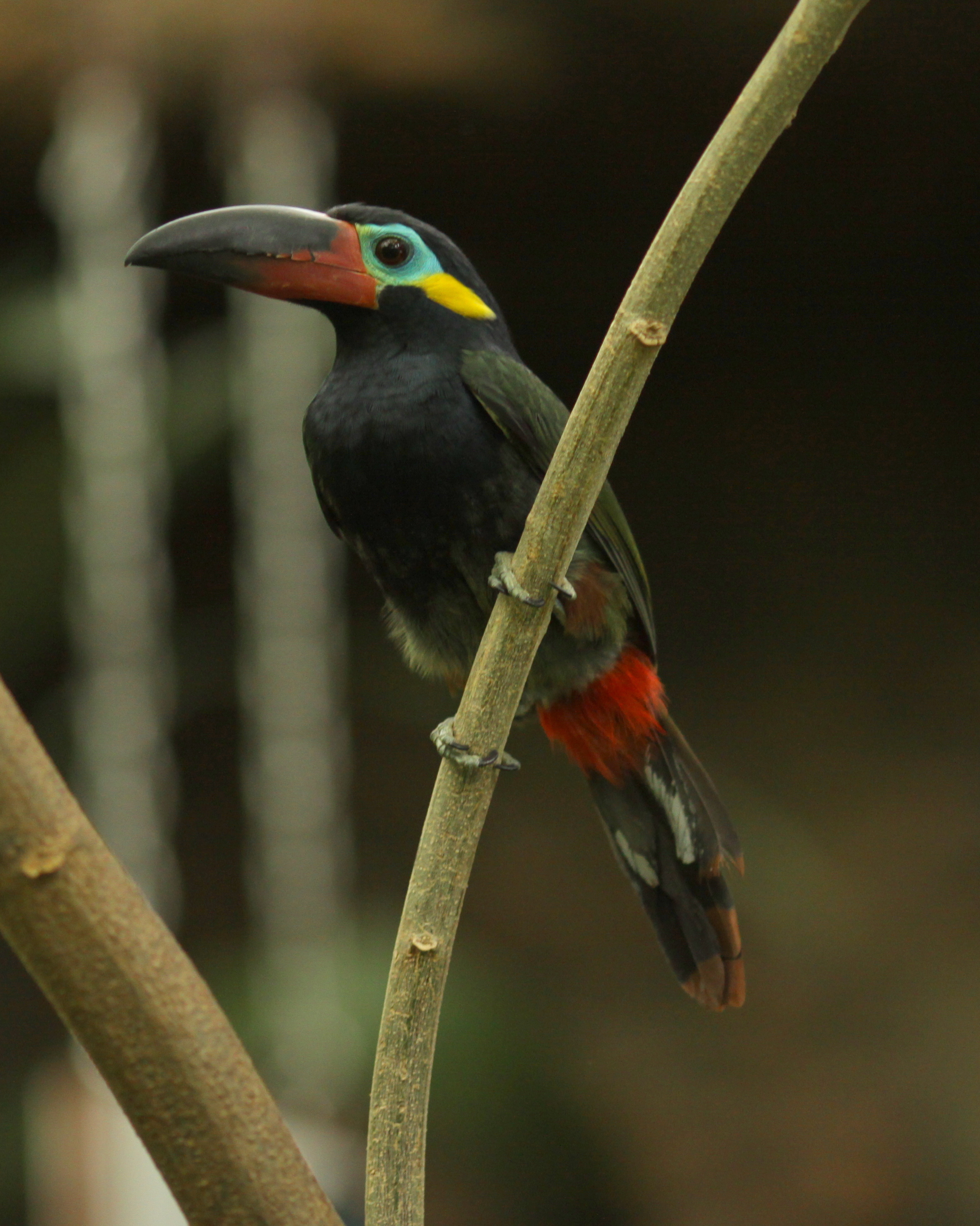 A male Guianan Toucanet at Dallas World Aquarium, USA.